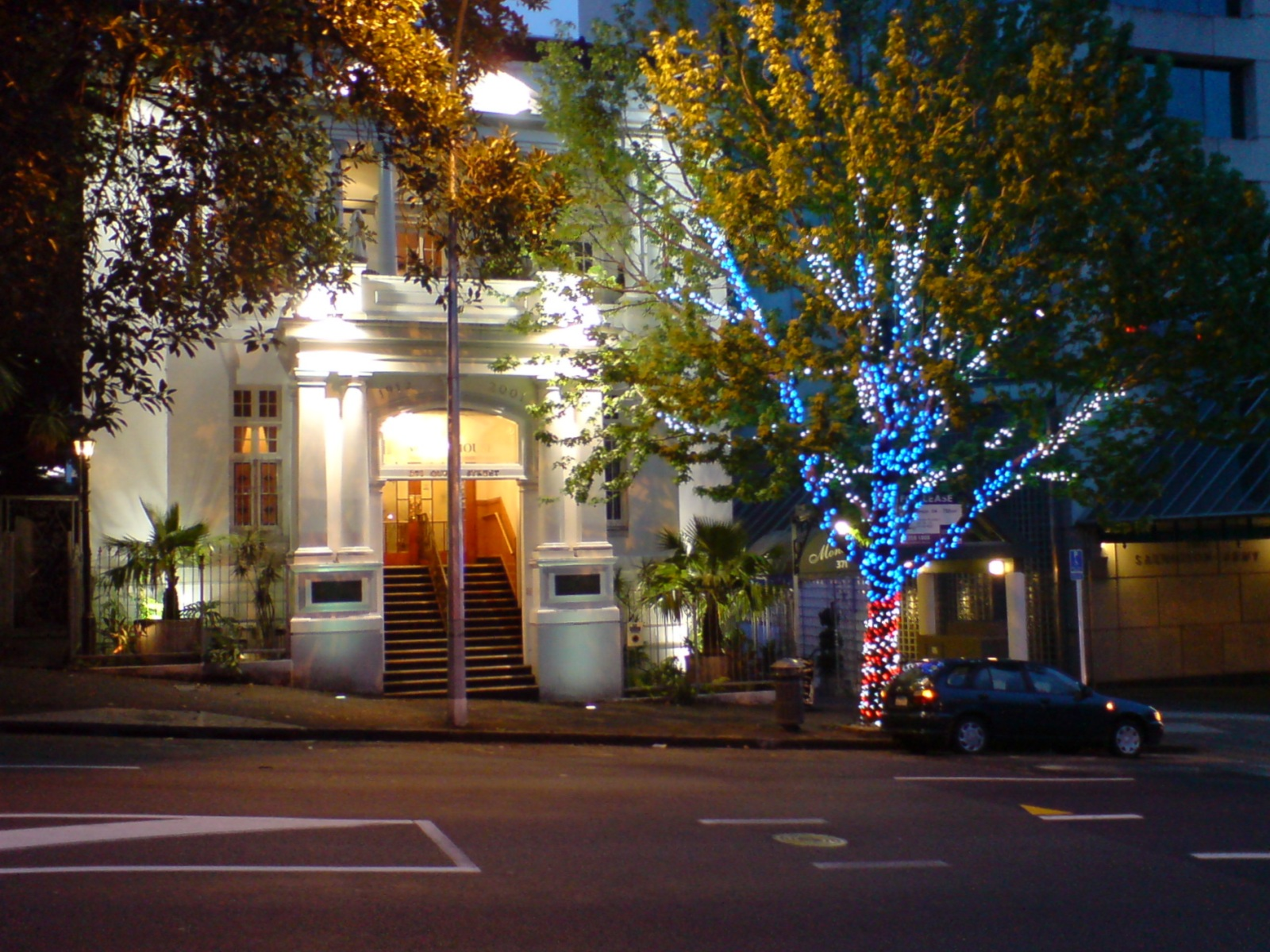 The 'White House' (which bills itself as a 'Gentlemen's Club' - i.e. an upscale strip club) in the Auckland CBD, Auckland City, New Zealand. Fitting in with their USA-theme, they have 'Stars n' Stripes' lights instead of standard holiday decorations!